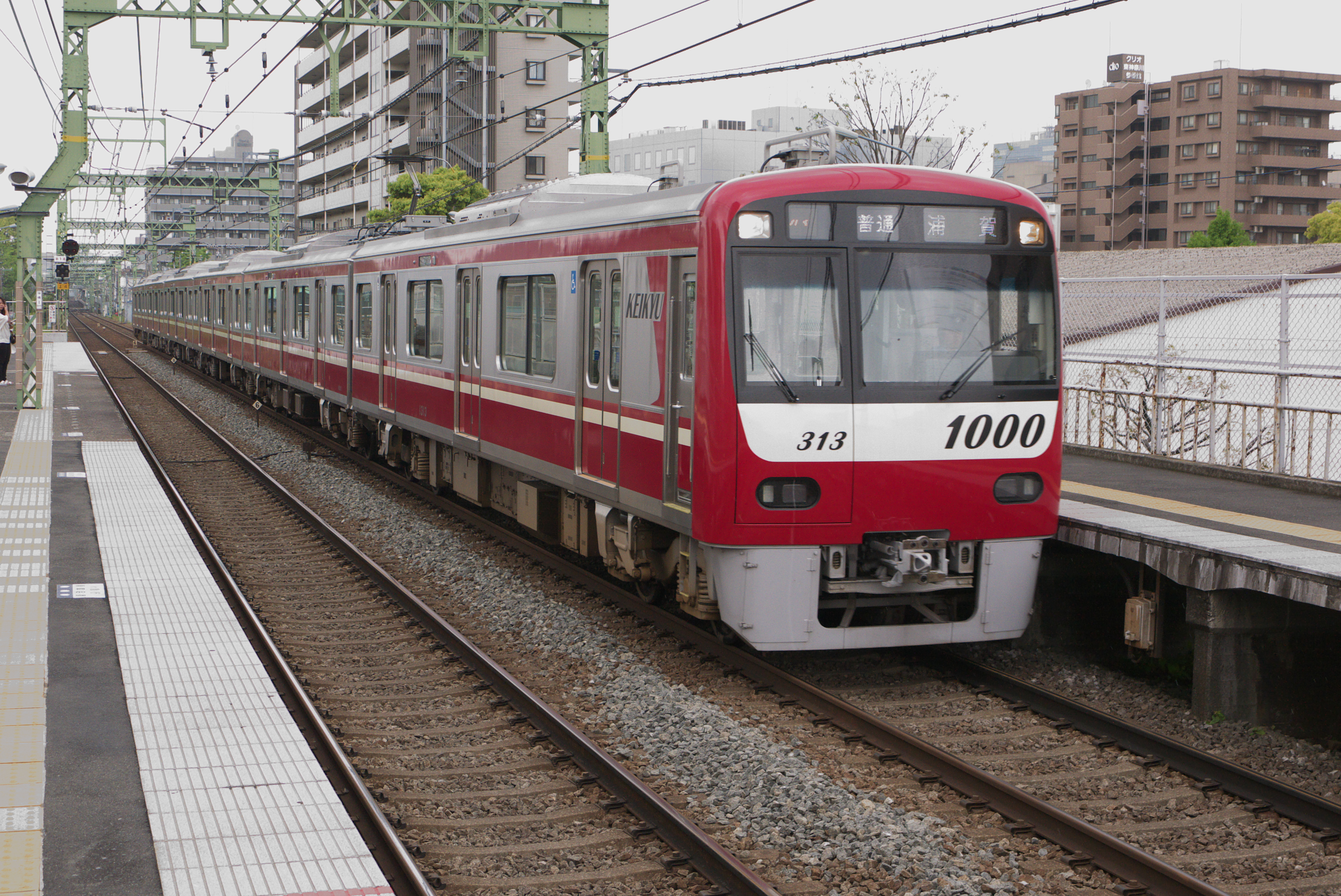 Keikyu N1000 series 6-car EMU set 1313 on an all-stations "Local" service at Nakakido Station